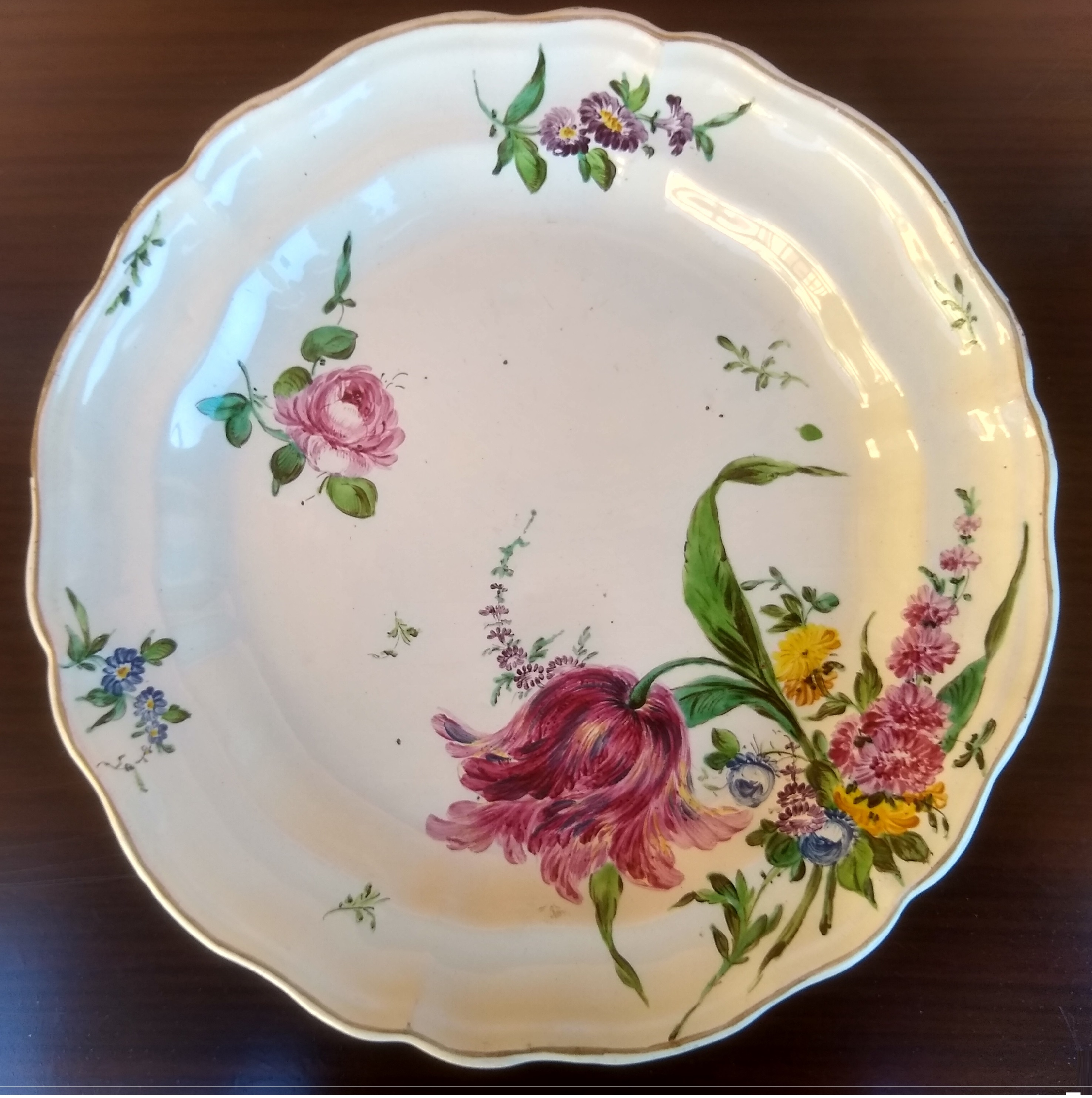 Maiolica dish, diameter=27 cm, produced in Lodi, Italy, Antonio Ferretti factory, about 1770-75, piccolo fuoco firing (overglaze decoration), with a blue mark on the back, indicating the Ferretti factory manufacture. It represents a flower bouquet, with a large tulip. Pictures of the same dish are also published in: Felice Ferrari, La ceramica di Lodi, Azzano San Paolo, Bolis Edizioni, 2003, page 307. A. Novasconi, S.Ferrari, S.Corvi, La ceramica Lodigiana, Edizione della Banca Mutua Popolare Agricola di Lodi, 1964, page 208. Saul Levy, Maioliche Settecentesche, Görlich editore, Milan, 1962, Illustration 172 Private collection